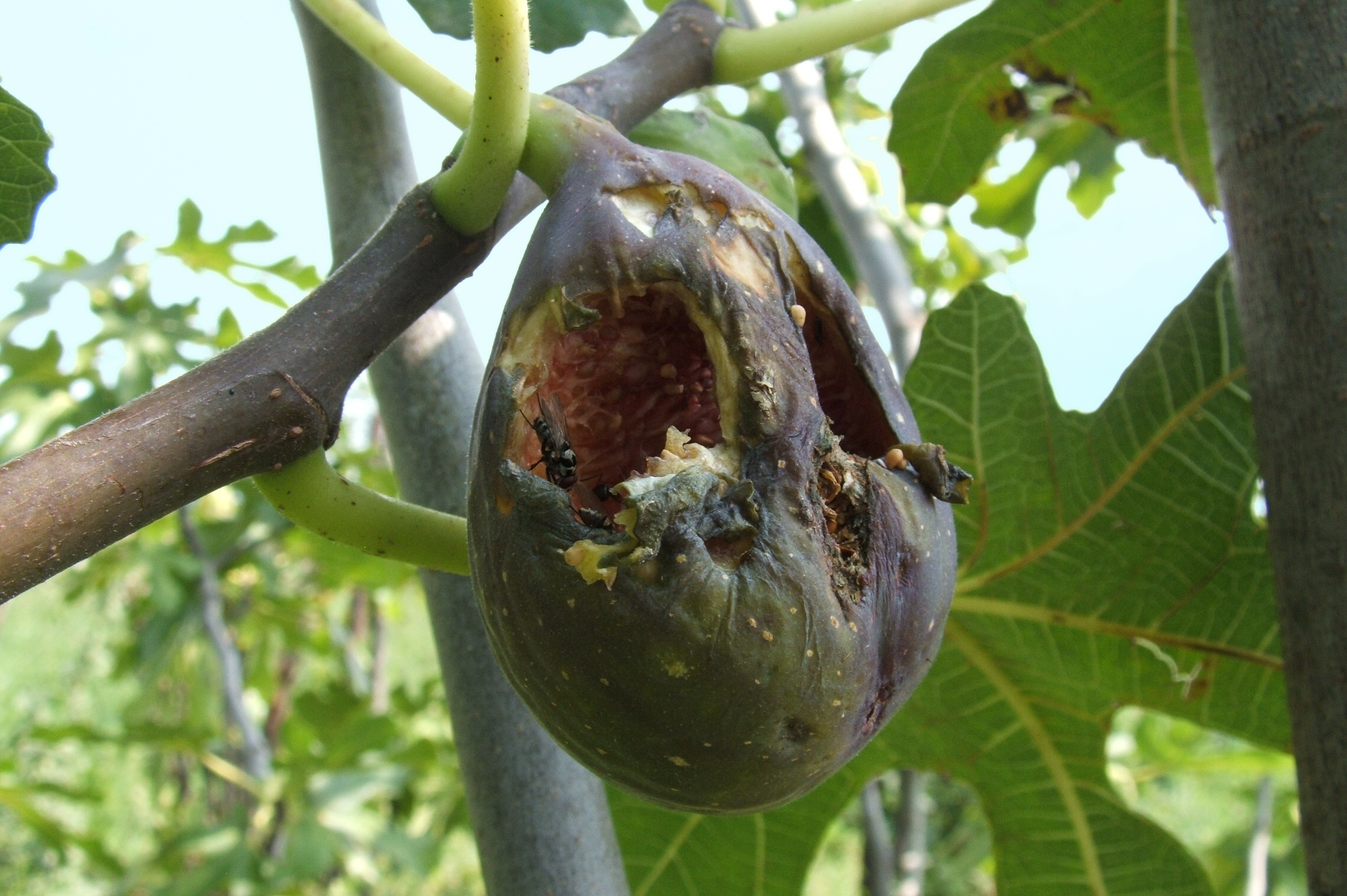 A fig with a fly